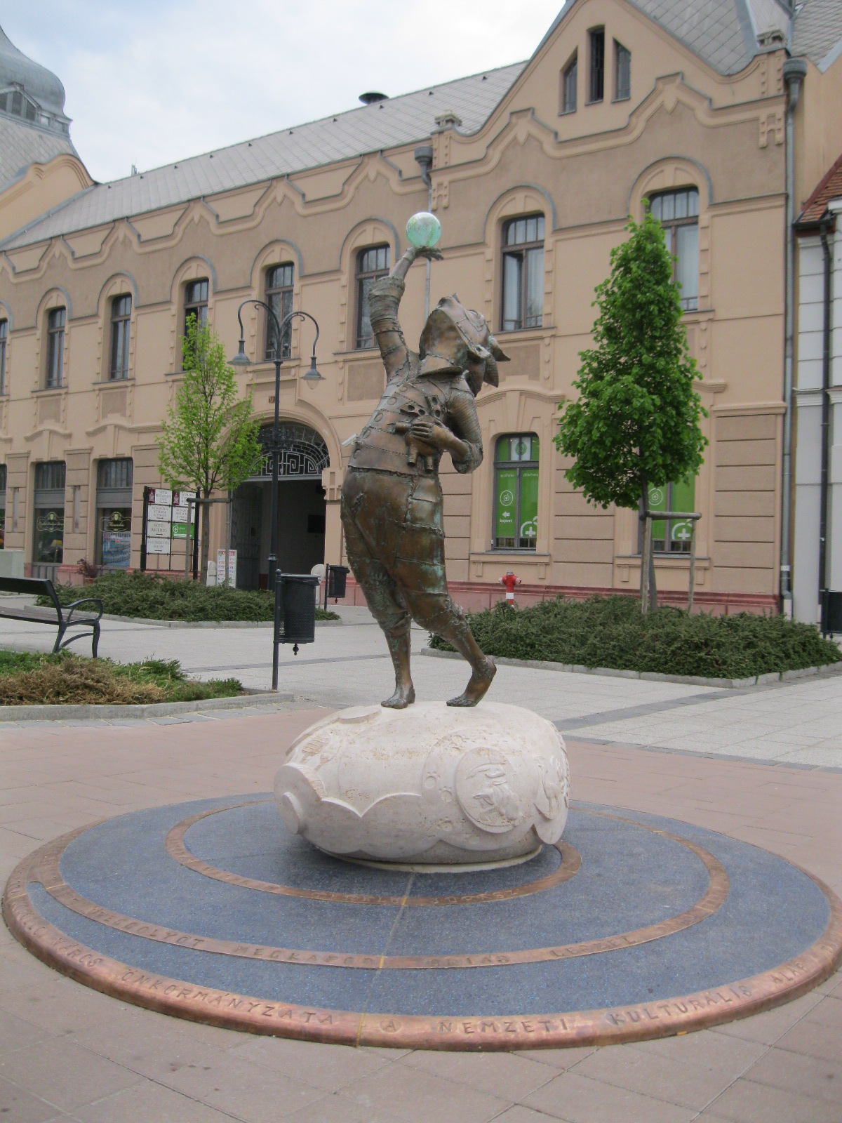 kis Balázs statue in Gödöllő. Sculptor: Apolka Erős, 2015.